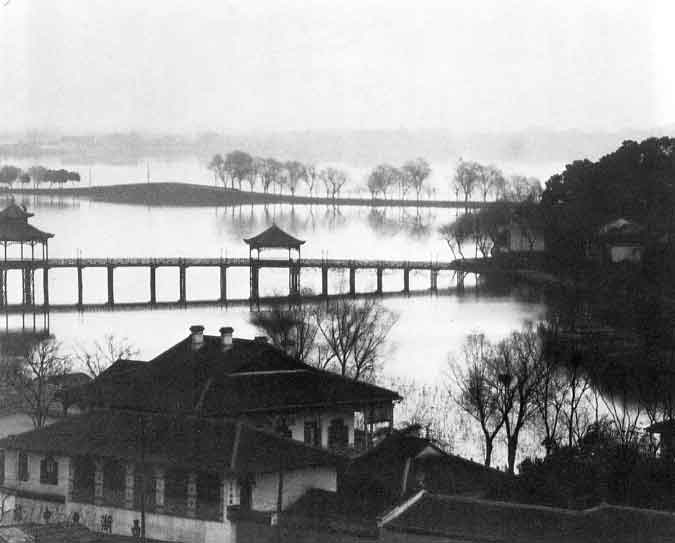 West Lake, Hangzhou